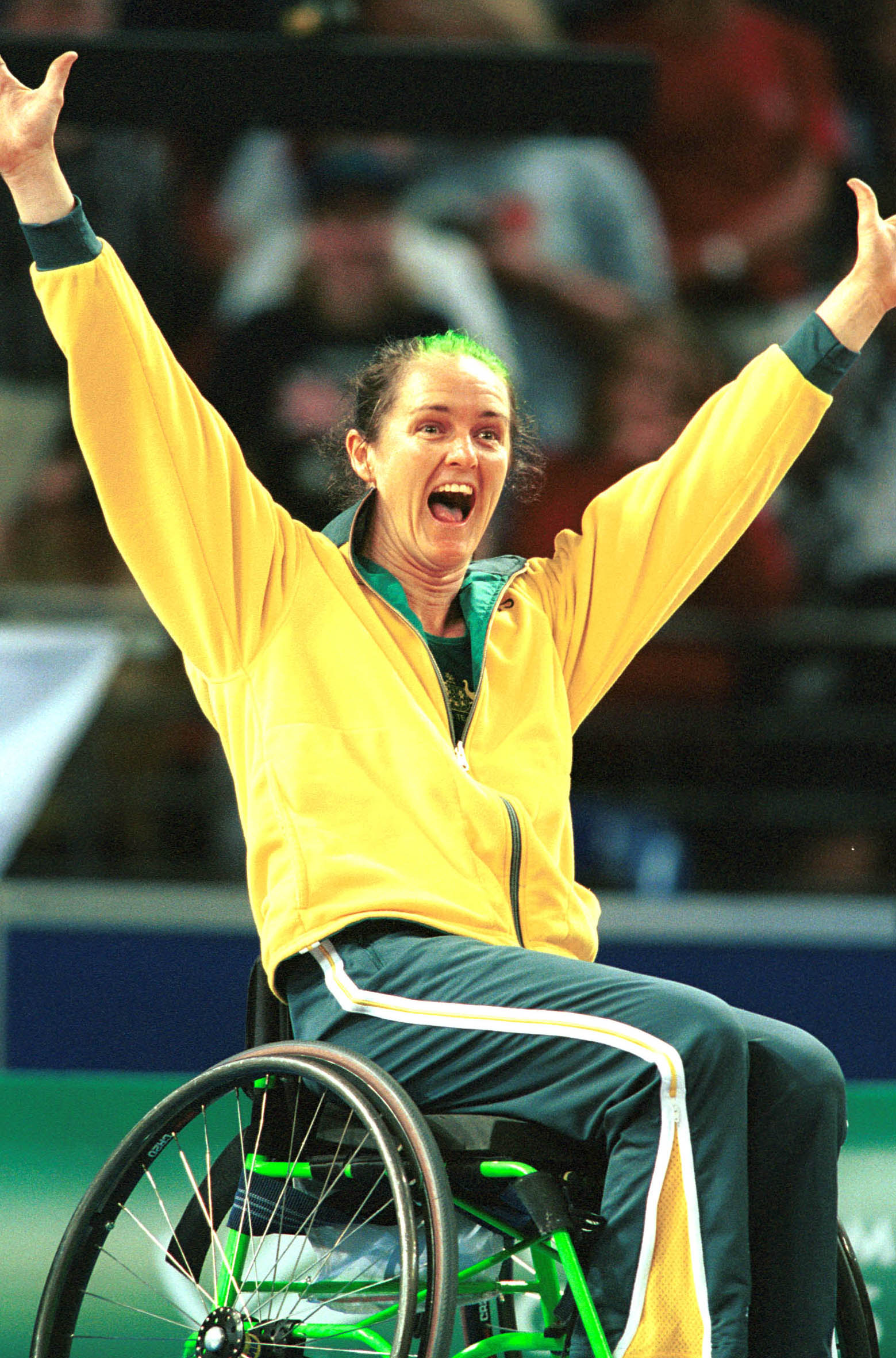 Australian wheelchair basketballer Liesl Tesch looks stoked during 2000 Sydney Paralympic Games match